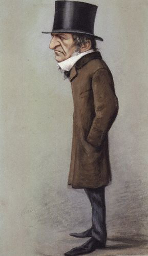 Statesmen No.2: Caricature of WE Gladstone. Caption reads "Were he a worse man, he would be a better statesman".